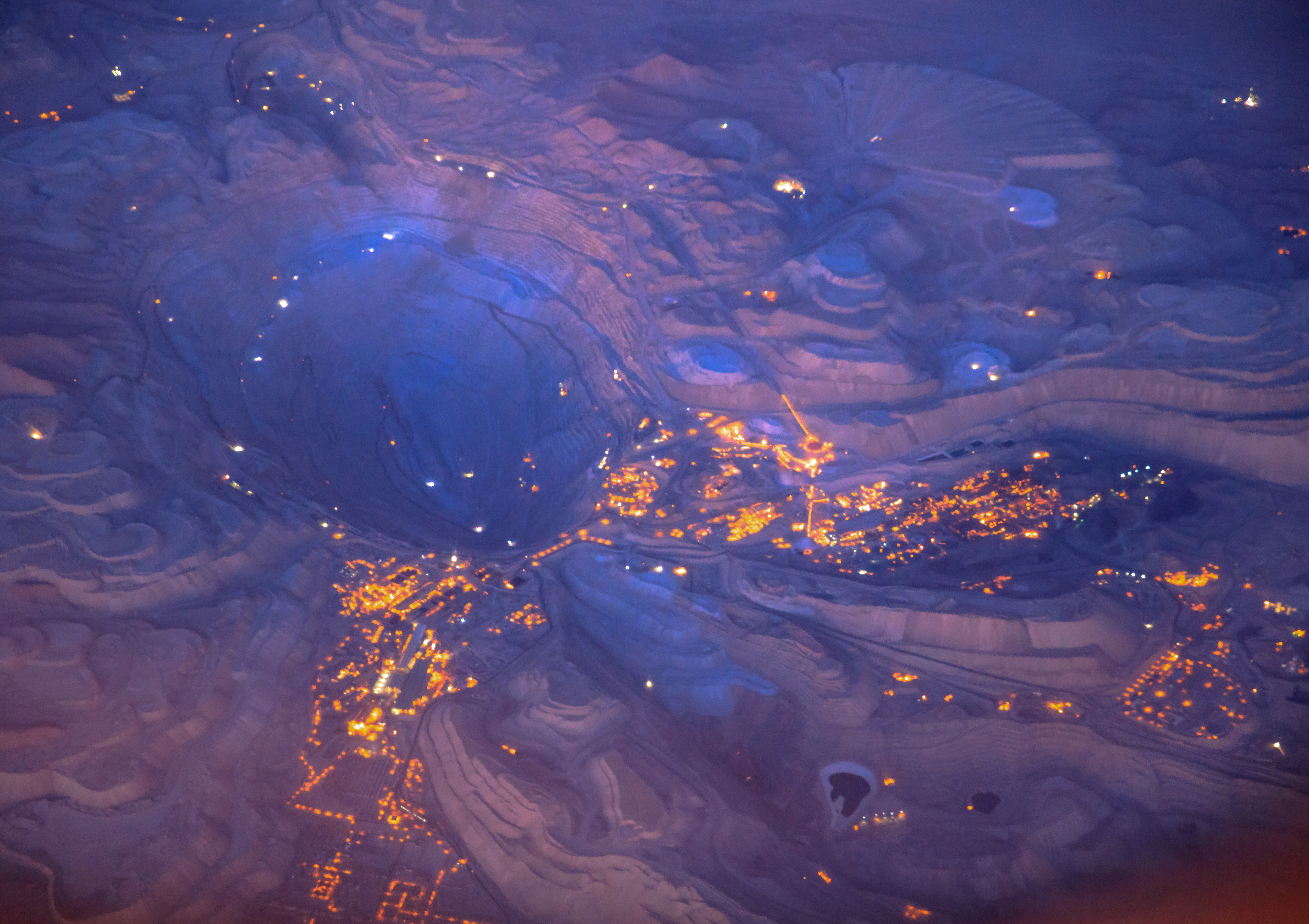 flight from Buenos Aires to Lima...the giant Collahuasi-Ujina Copper-Silver mine at 4000m in the Andes (in Chile) just W of the Salaar de Uyuni (Bolivia)...